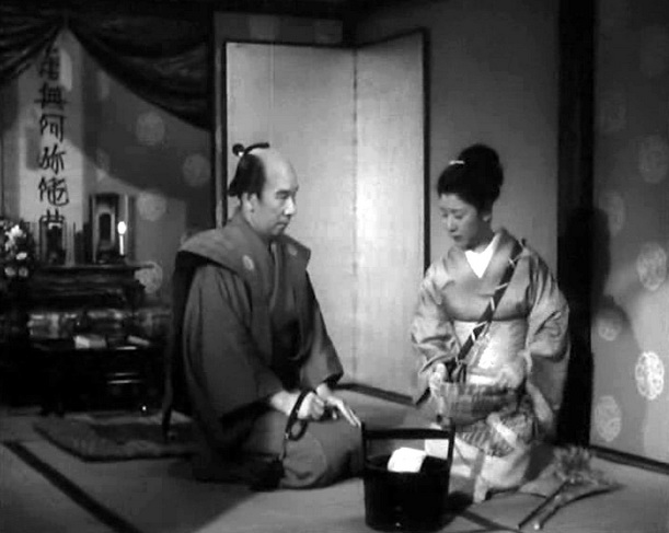 Screenshot from The Life of Oharu, 1952 film.